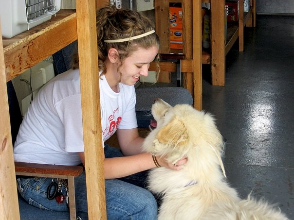 A KAMS student gives back to the community by volunteering at the local Humane Society.